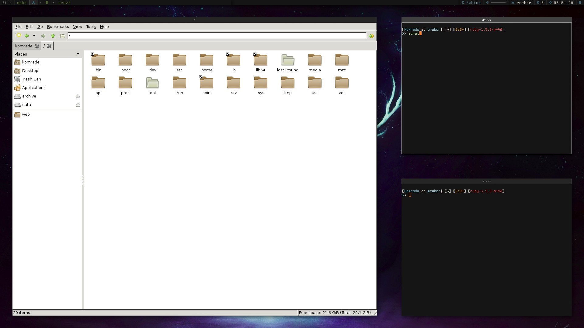 XMonad in tiling mode with two URXVT temrinals and pcmanFM open